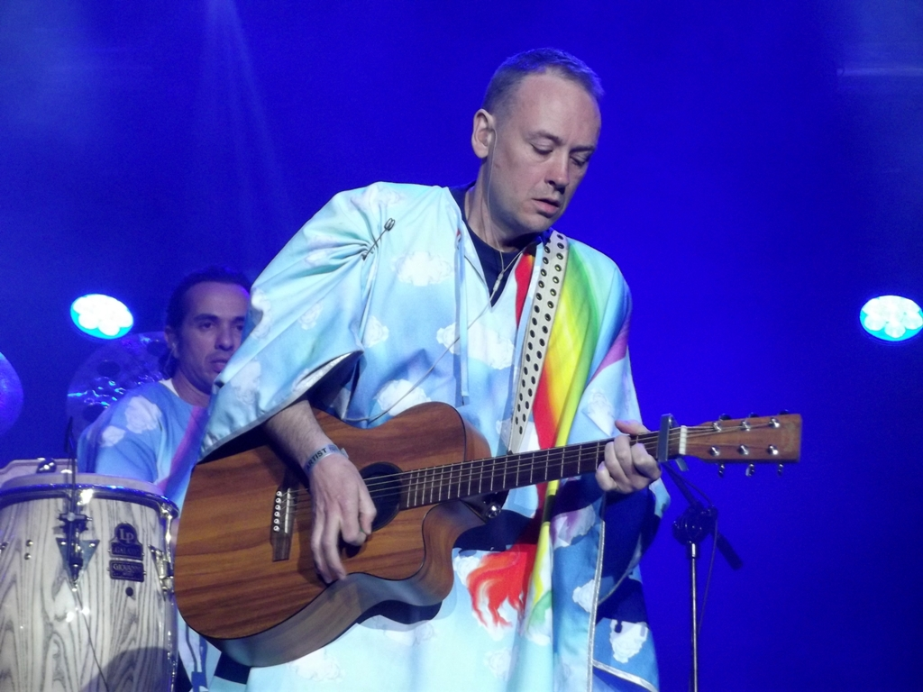 Basement Jaxx performing during Orange Warsaw Festival 2013